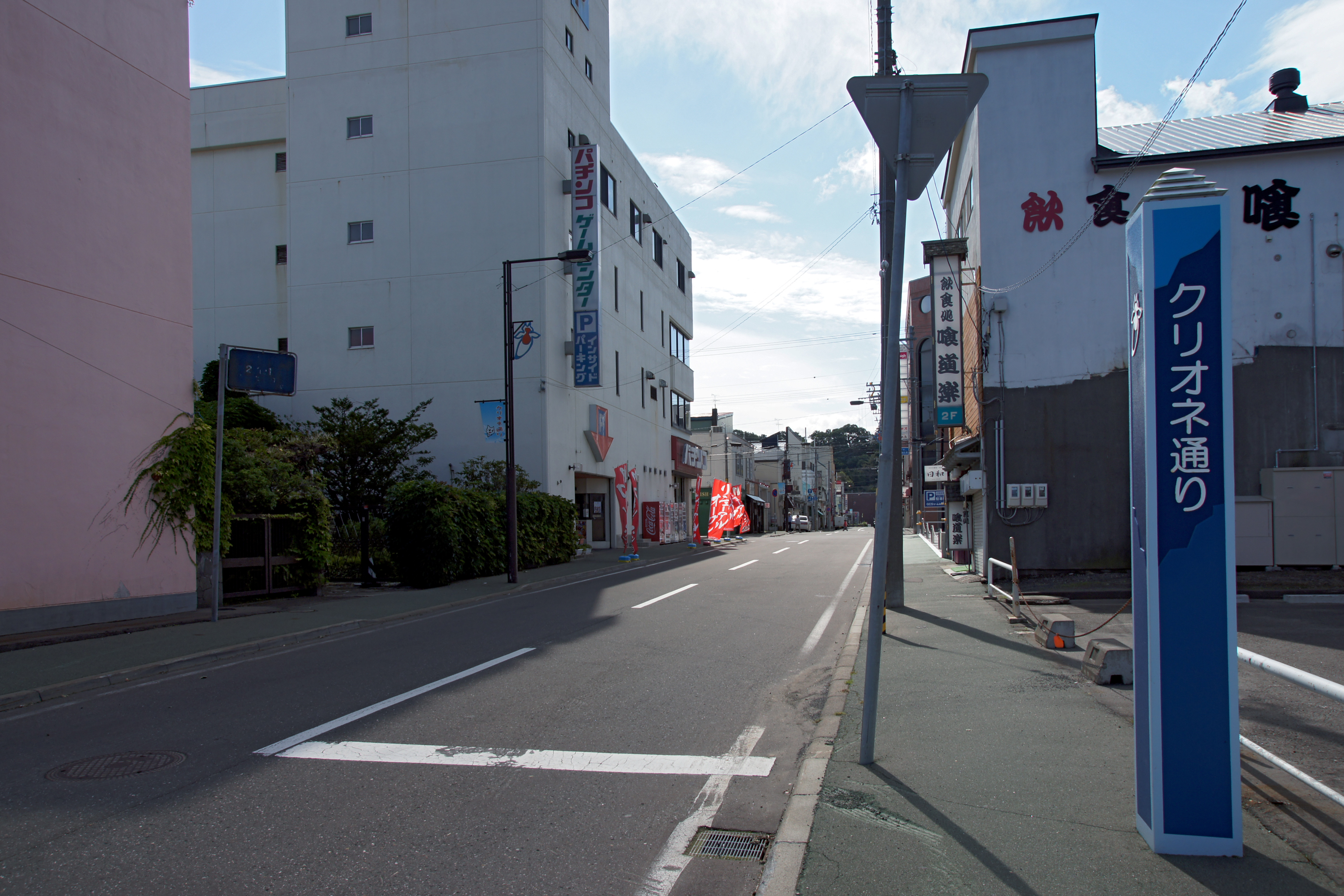 Clione-dori (Clione street) in Abashiri, Hokkaido prefecture, Japan